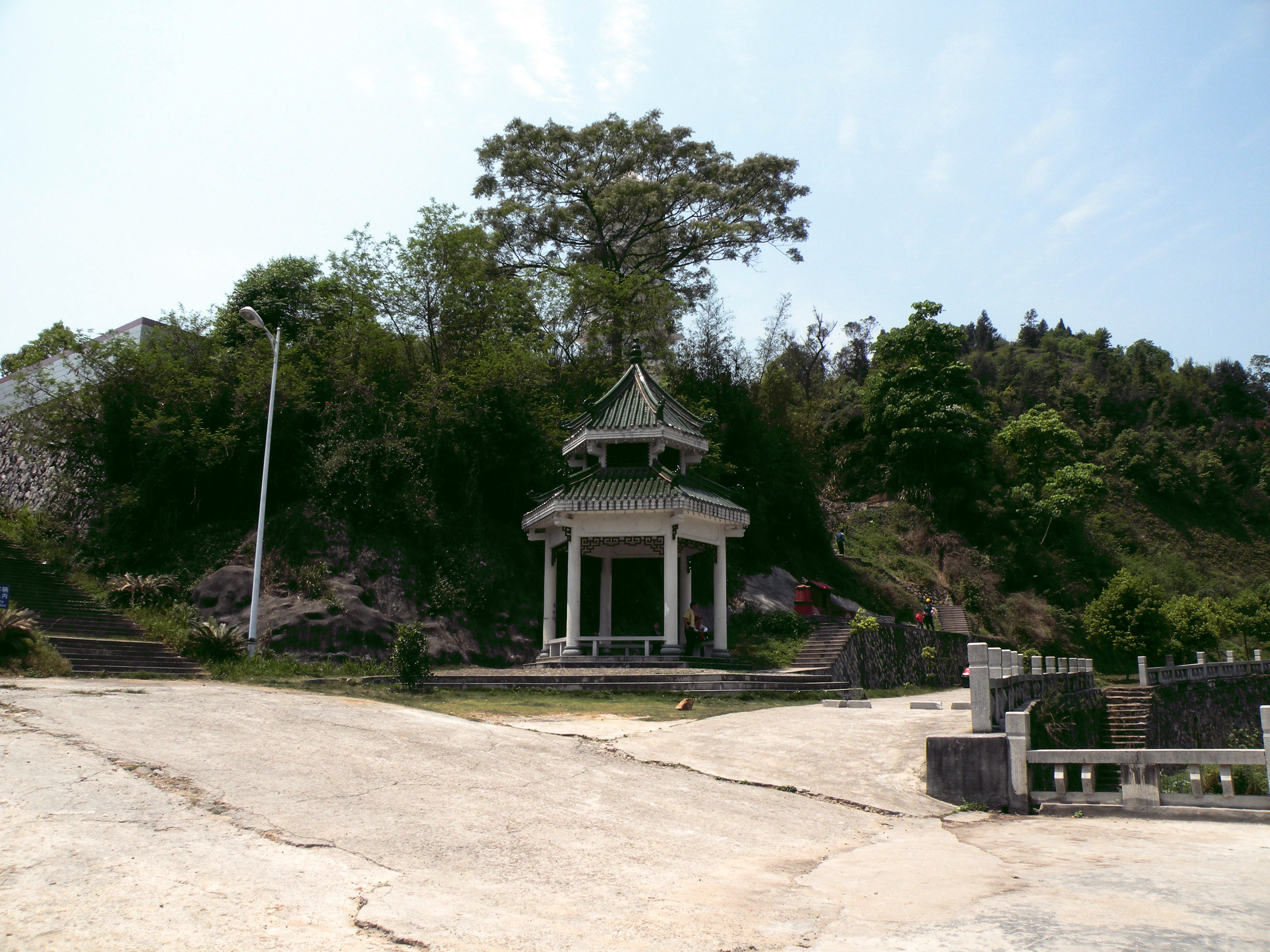 Pavilion at Haw Par Villa in Fujian Province, China 中文（香港）: 中國，福建省，虎豹別墅裡的涼亭